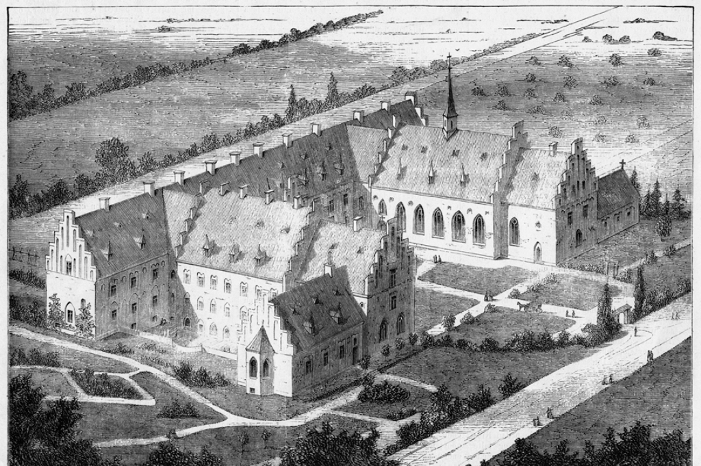 Woodcut after drawing by Hans J. Holm showing Diakonissestiftelsen in Frederiksberg, Denmark